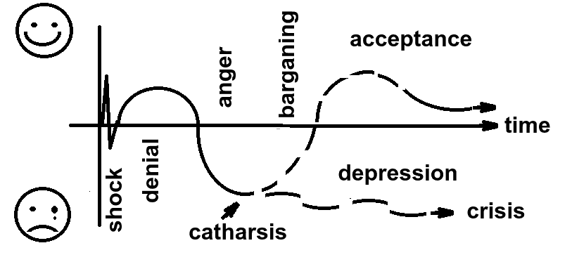 Diagram showing two possible outcomes of grief or a life-changing event (introverted depression or extroverted life enhancing overall benefit)